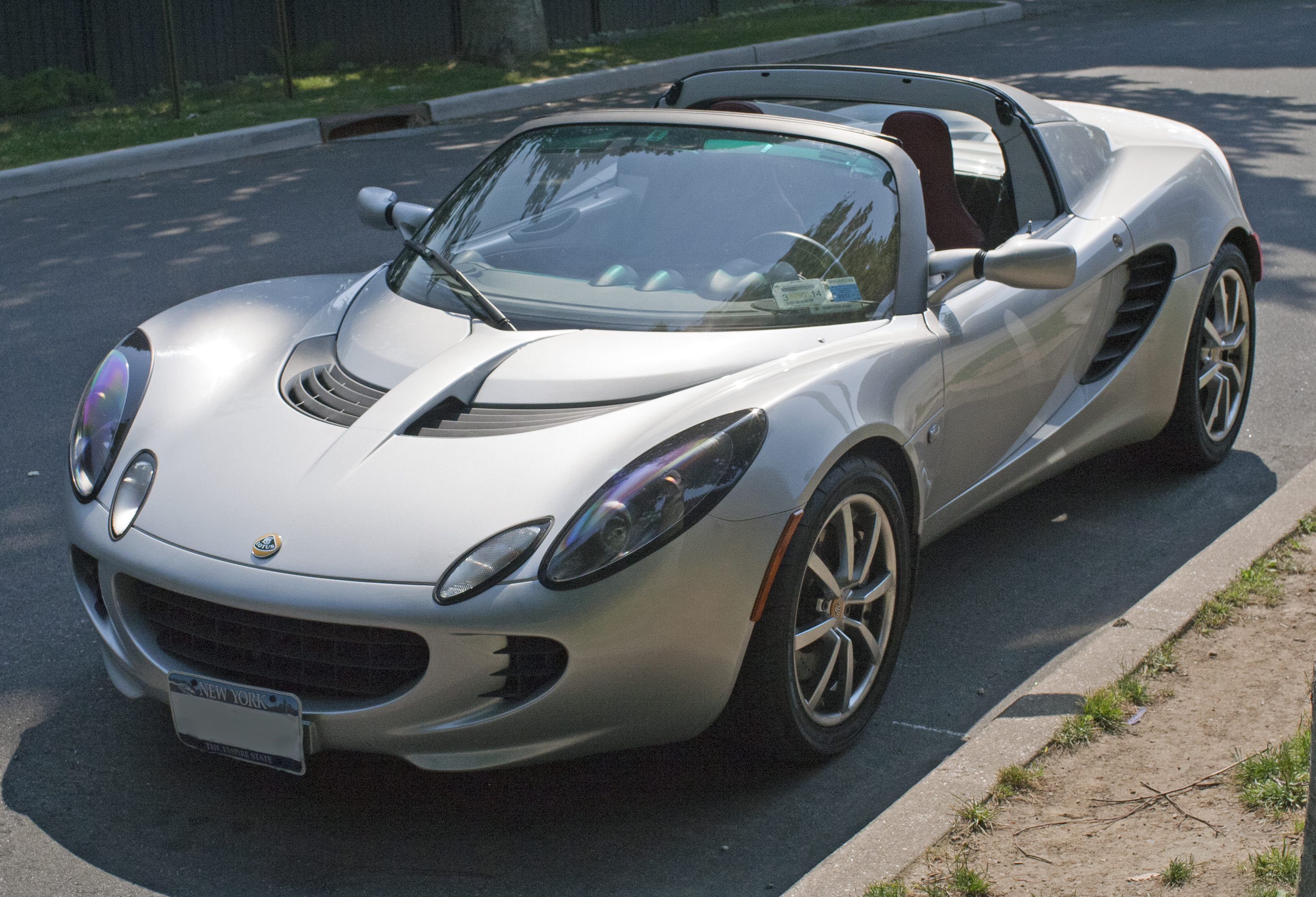 2005 Lotus Elise, the first year of federalized Elises.